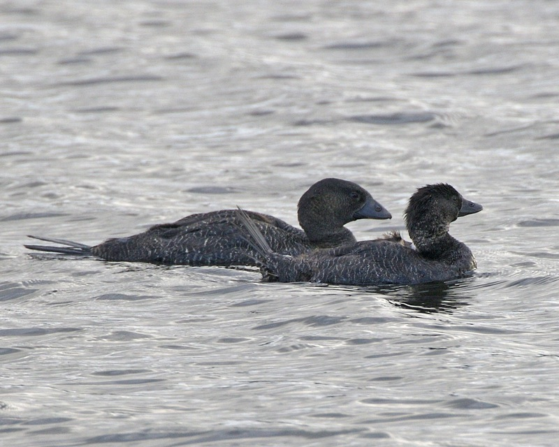 Musk Ducks - female Biziura lobata Lake Wallace, Blue Mountains, NSW, Australia 10th. February 2008